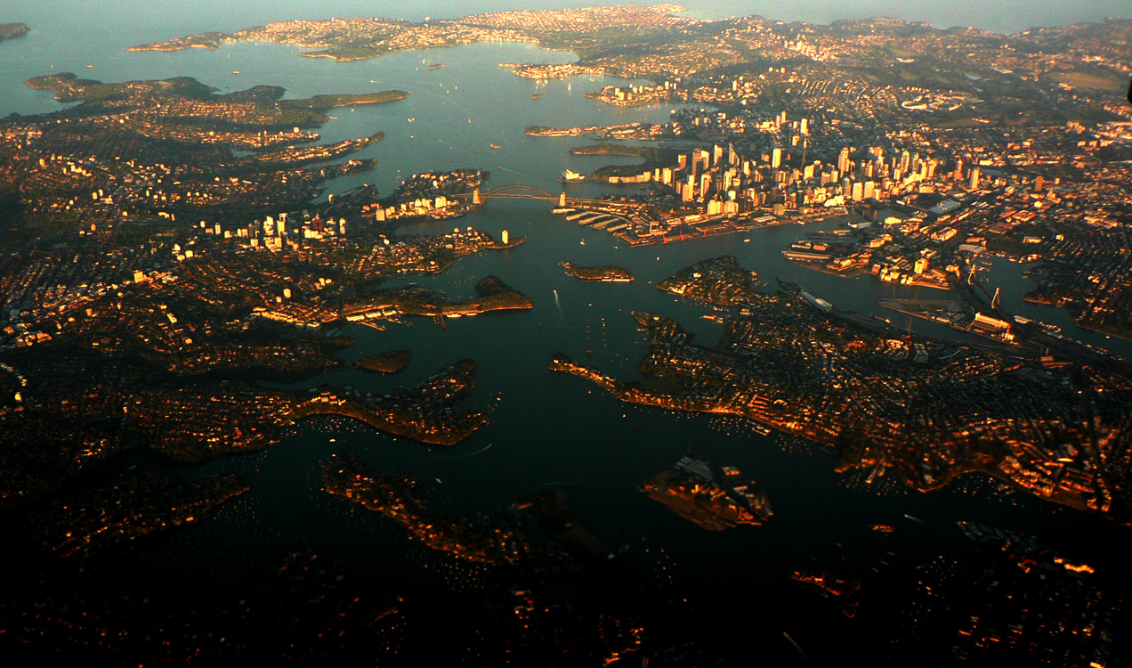 Joel Kingston, Taken from a flight into Sydney-- Kingyj 09:38, 18 July 2006 (UTC)